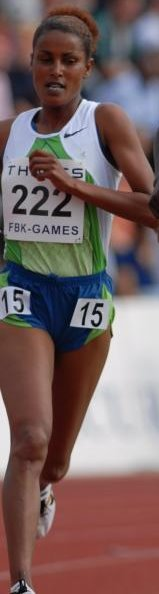 Maryam Yusuf Jamal competing at the FBK Games 2007.